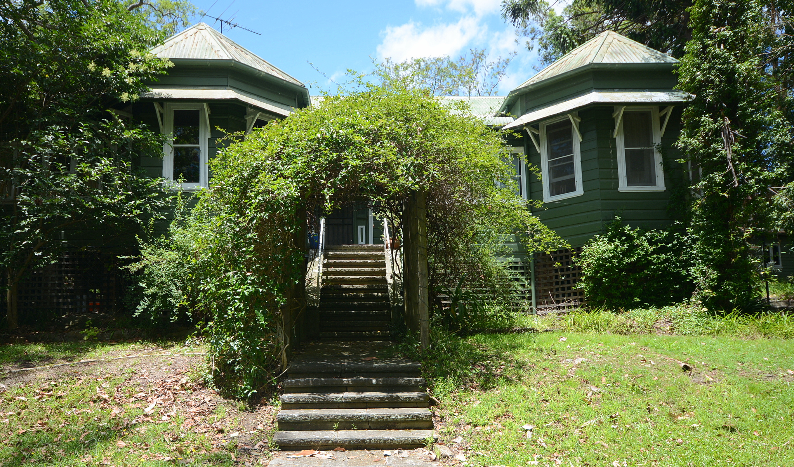 Coringah, former home of Edgeworth David, Edgeworth David Garden, Hornsby, Sydney